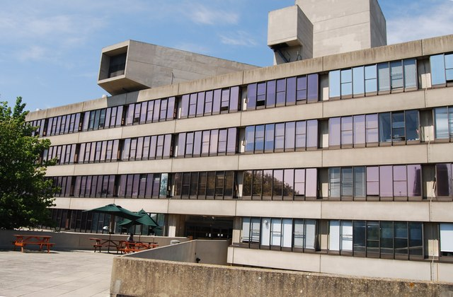 The Teaching Wall, University of East Anglia The walkway entrance to Biological Sciences, at the very western end of the wall.